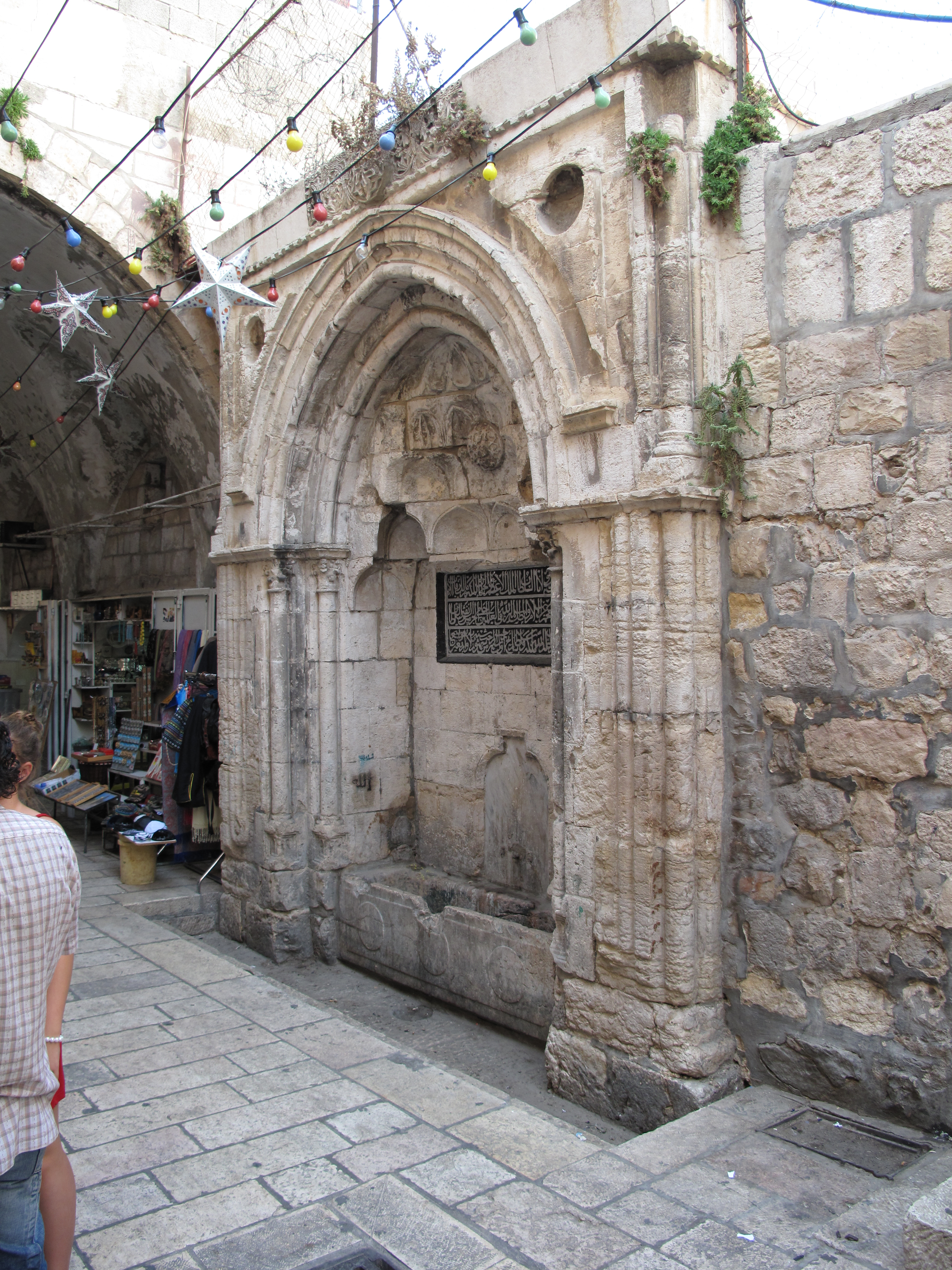 Jerusalem, Israel.